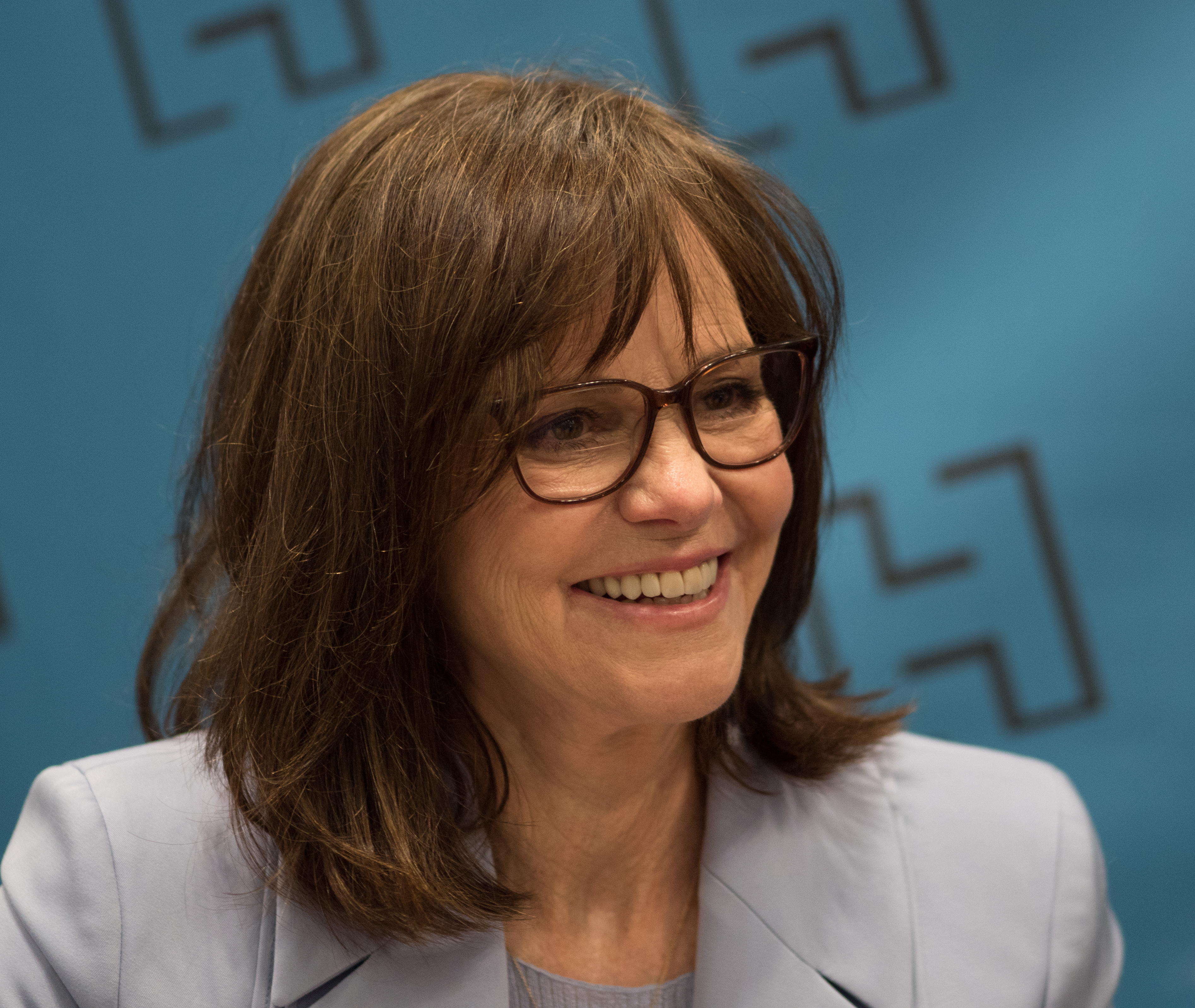 Sally Field BookExpo America 2018 at the Javits Convention Center in New York City.